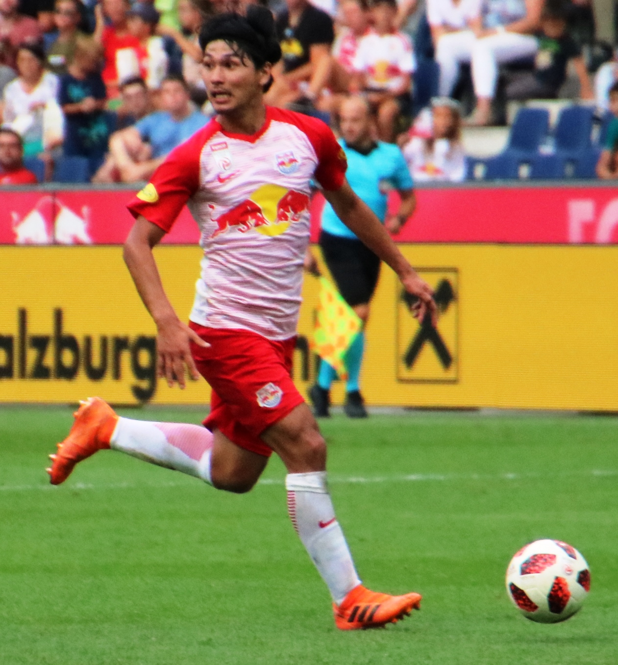 Austrian Bundesliga league match 3rd round